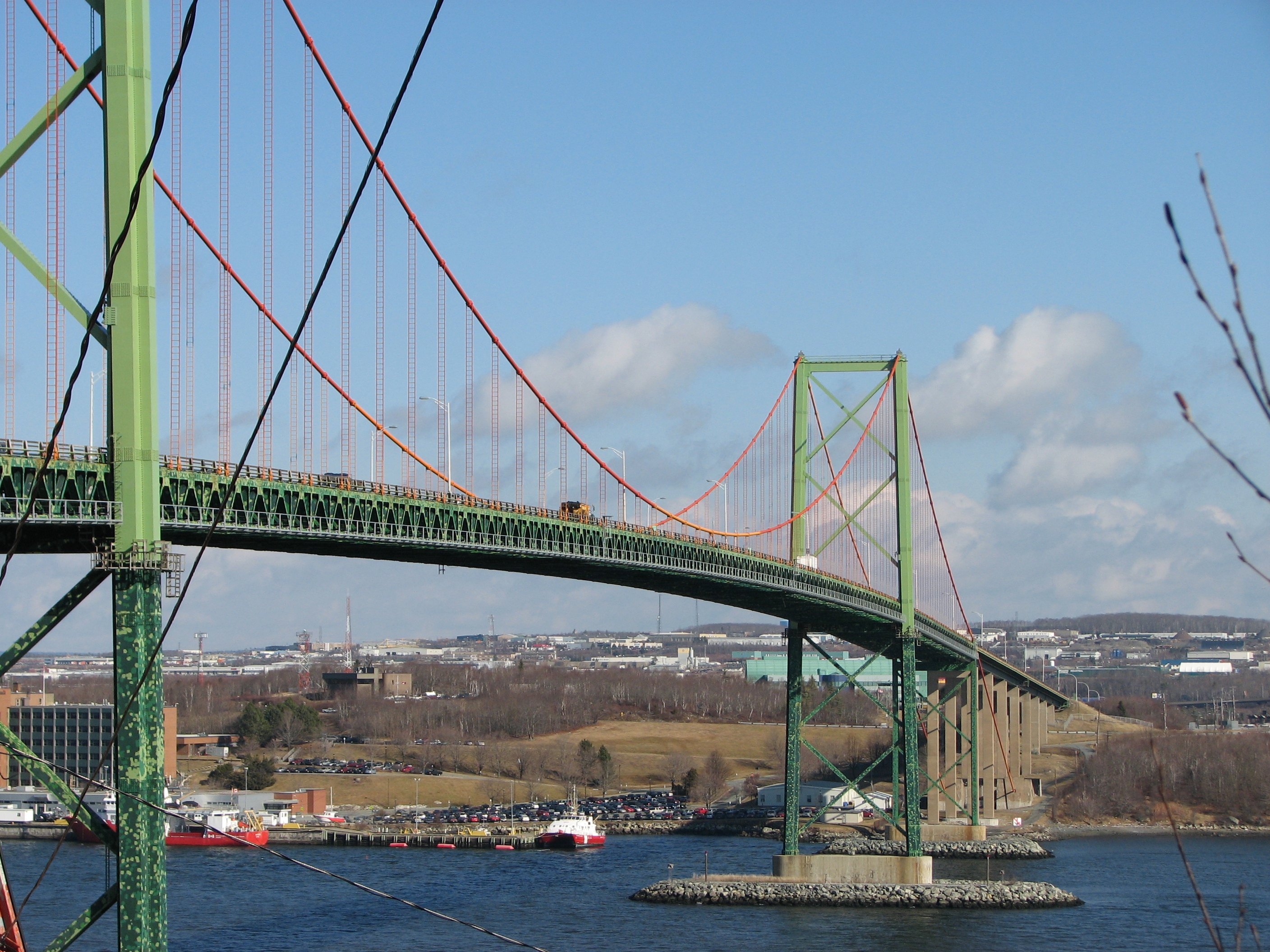 A view of the A Murray MacKay Bridge from the north end on a sunny February day.